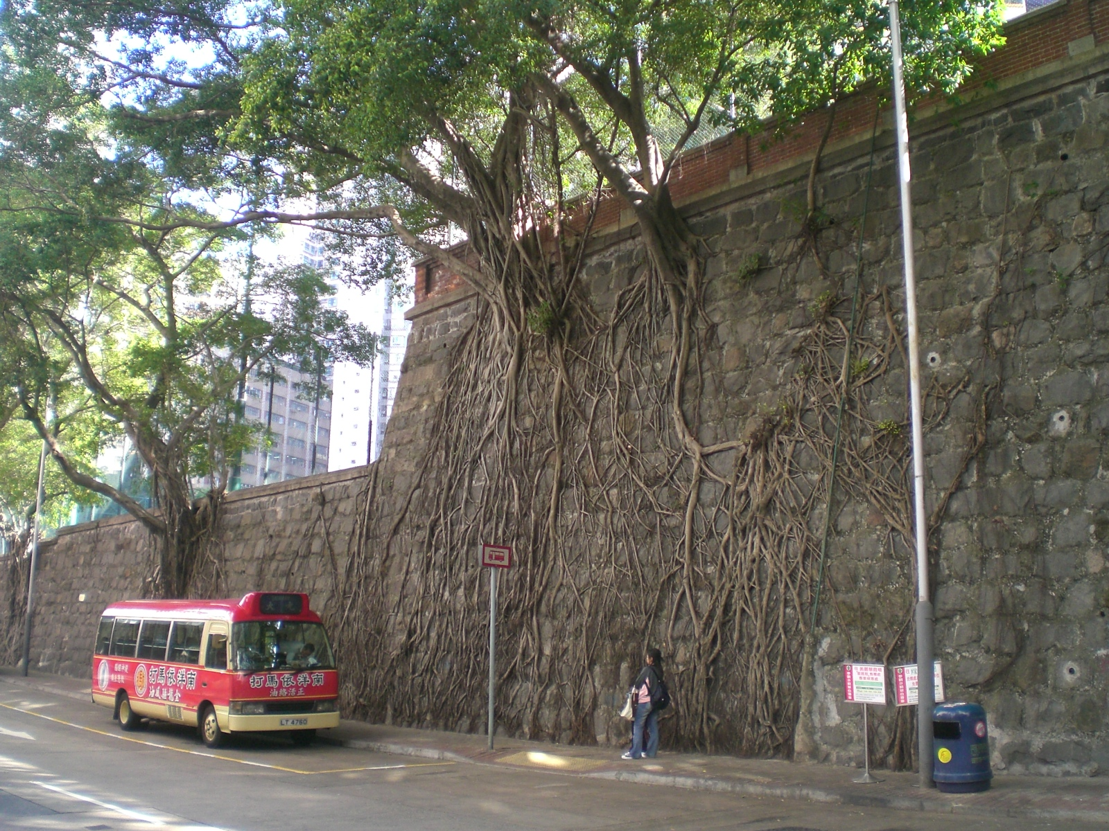 Stone wall trees, Forbes Street, 科士街, Kennedy Town, Hong Kong